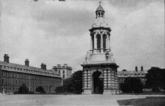 A photograph of Trinity College Dublin's now demolished "Rotten Row"